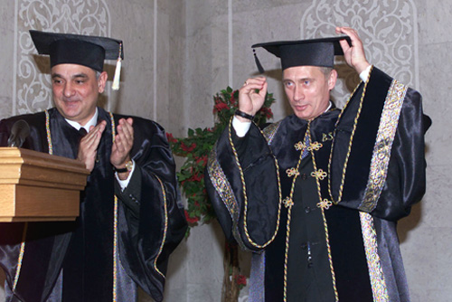 BAKU. President Vladimir Putin presented with an honorary Doctor's gown at Baku Slavic University.